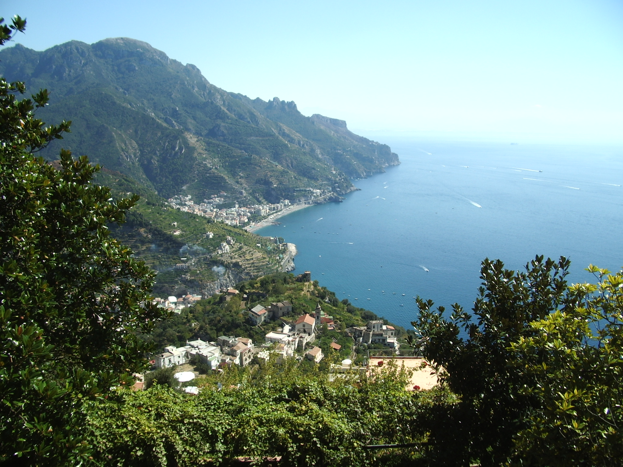 View from Ravello, Italy, down into the bay.